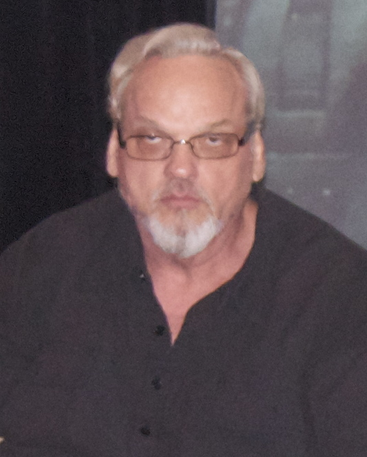 Leatherface actors from The Texas Chain Saw Massacre (1974), The Texas Chainsaw Massacre 2 (1986) and Leatherface: The Texas Chainsaw Massacre III (1990) at Days of the Dead Indianapolis 2012.